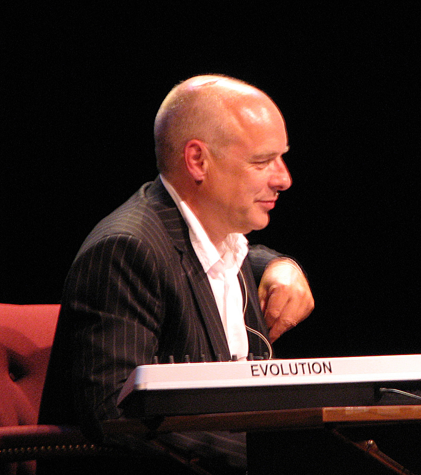 Photograph of Brian Eno at a 2006 Long Now Foundation discussion with Will Wright